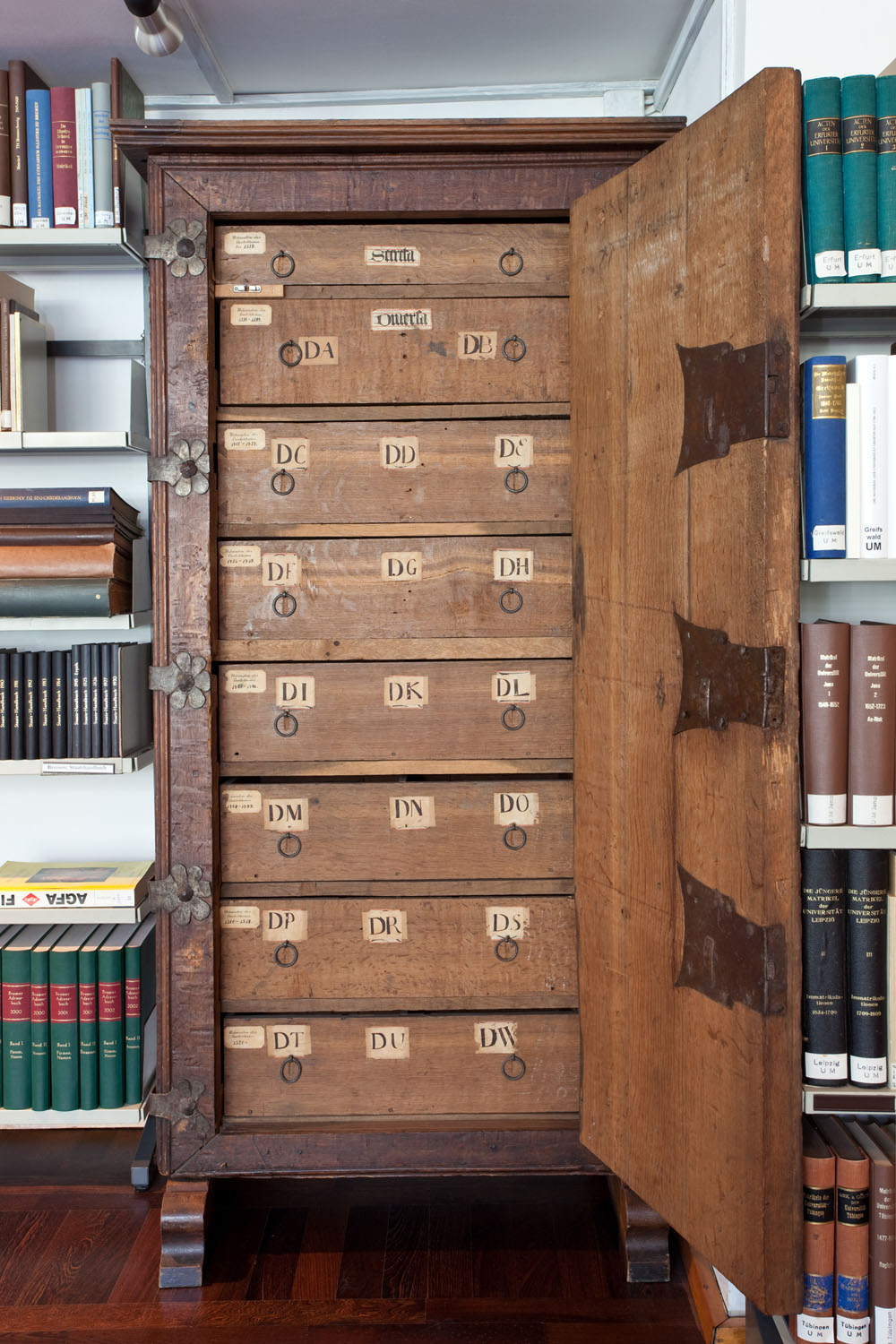 Treseschrank in the reading room of the Staatsarchiv Bremen (“state archive of Bremen”) in Germany. The cabinet, that originally belongt the St. Paul’s monastery (and therefore must have been manufactured before 1523), was later used as a filing archive by the council of Bremen.